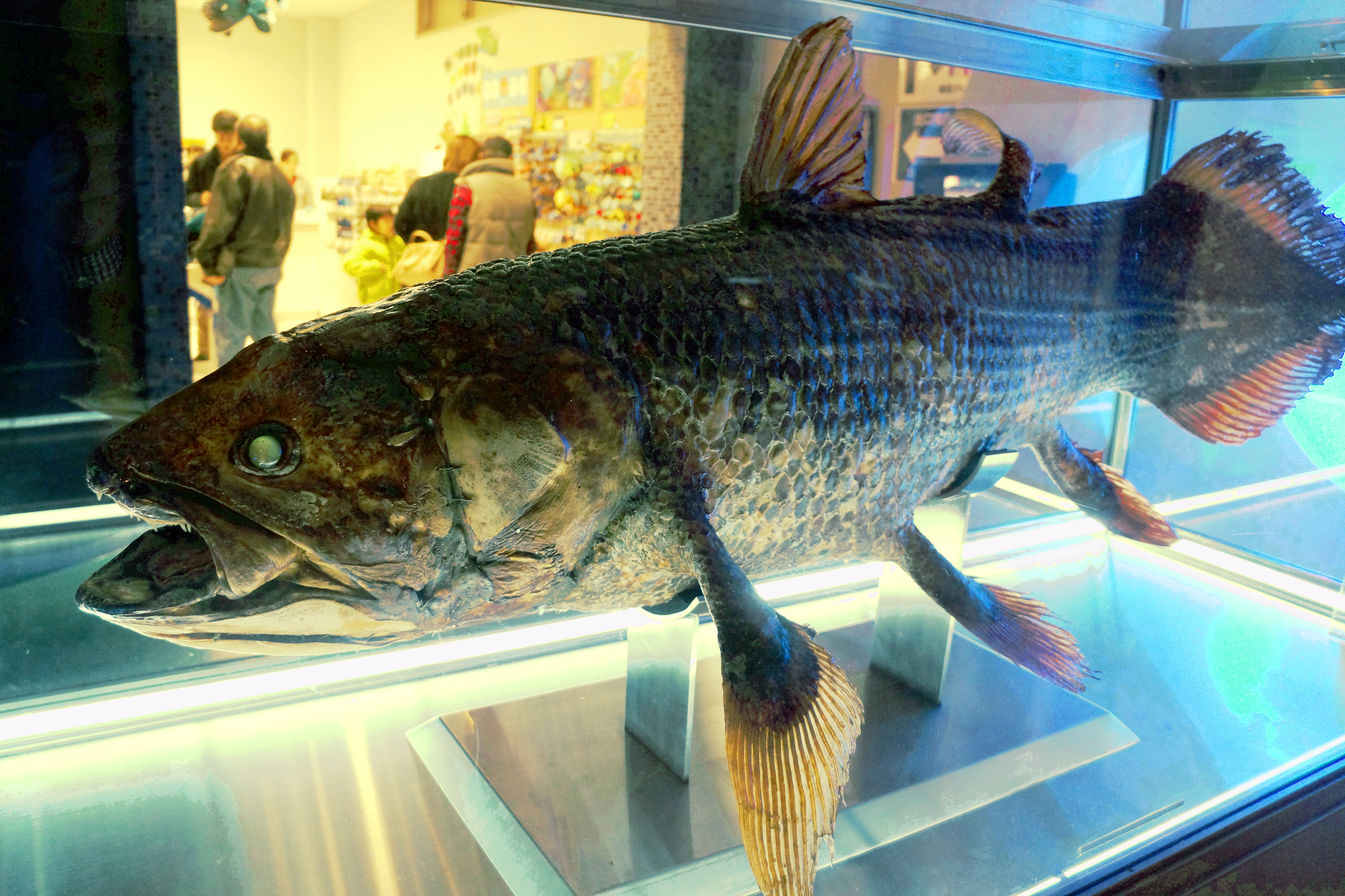 Coelacanth , Coelacanthiformes , Numazu Deepblue Aquarium ,Shizuoka, Japan